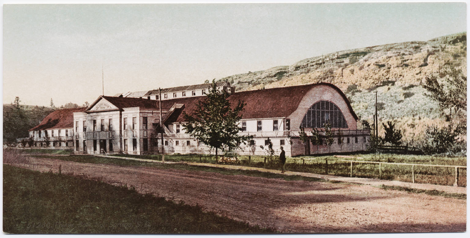 A photochrom postcard published by the Detroit Photographic Company.